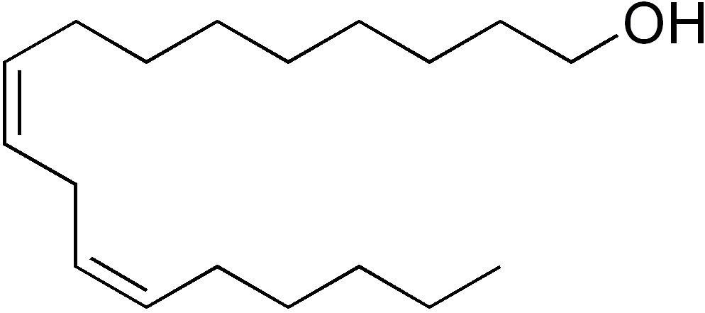 chemical structure of linoleyl alcohol